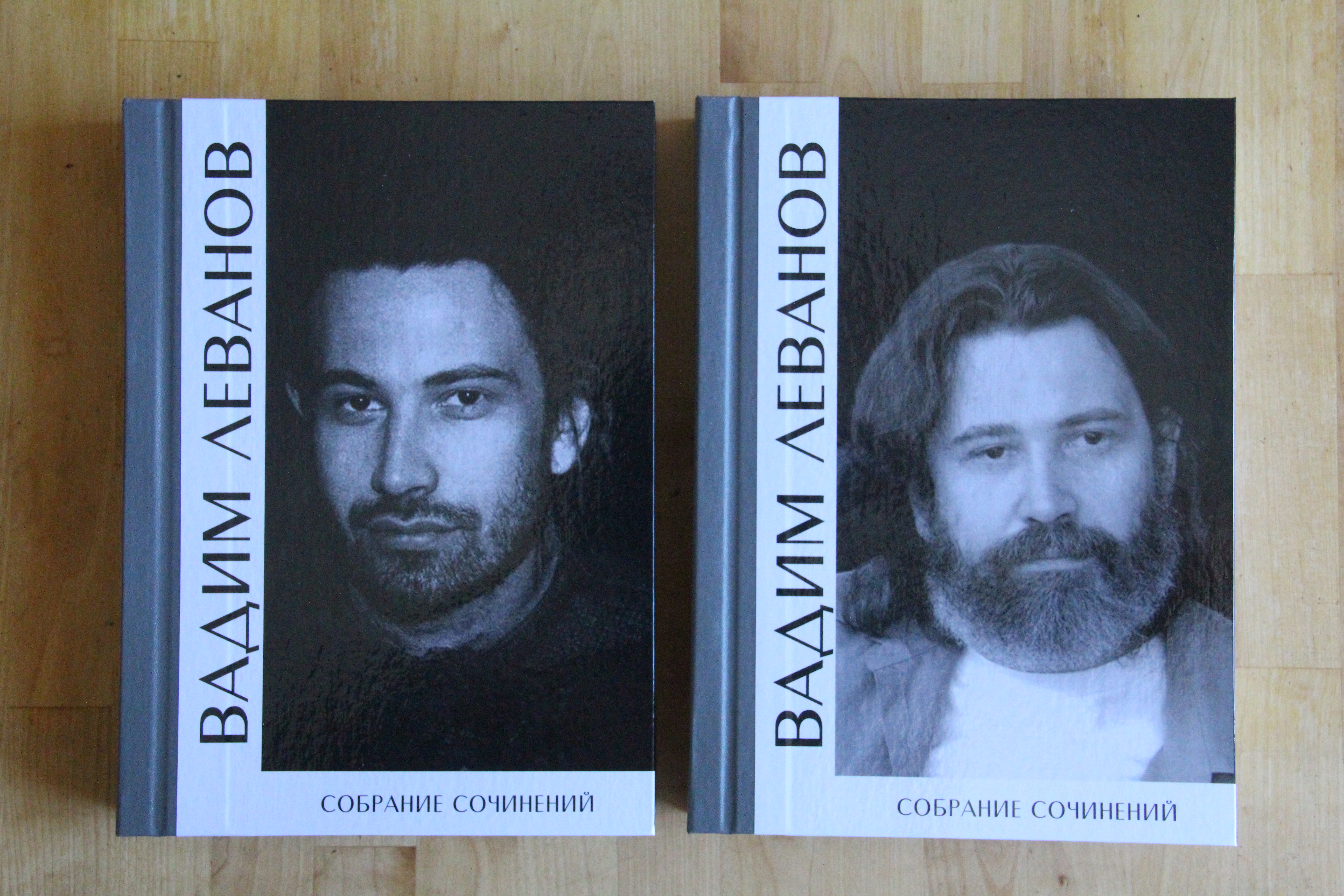 Photo of the front cover volumes of the complete works of the playwright Vadim Levanov. The author photos on the cover - Smirnov V. A. Literary Agency Vyacheslav Smirnov, Togliatti, 2018.